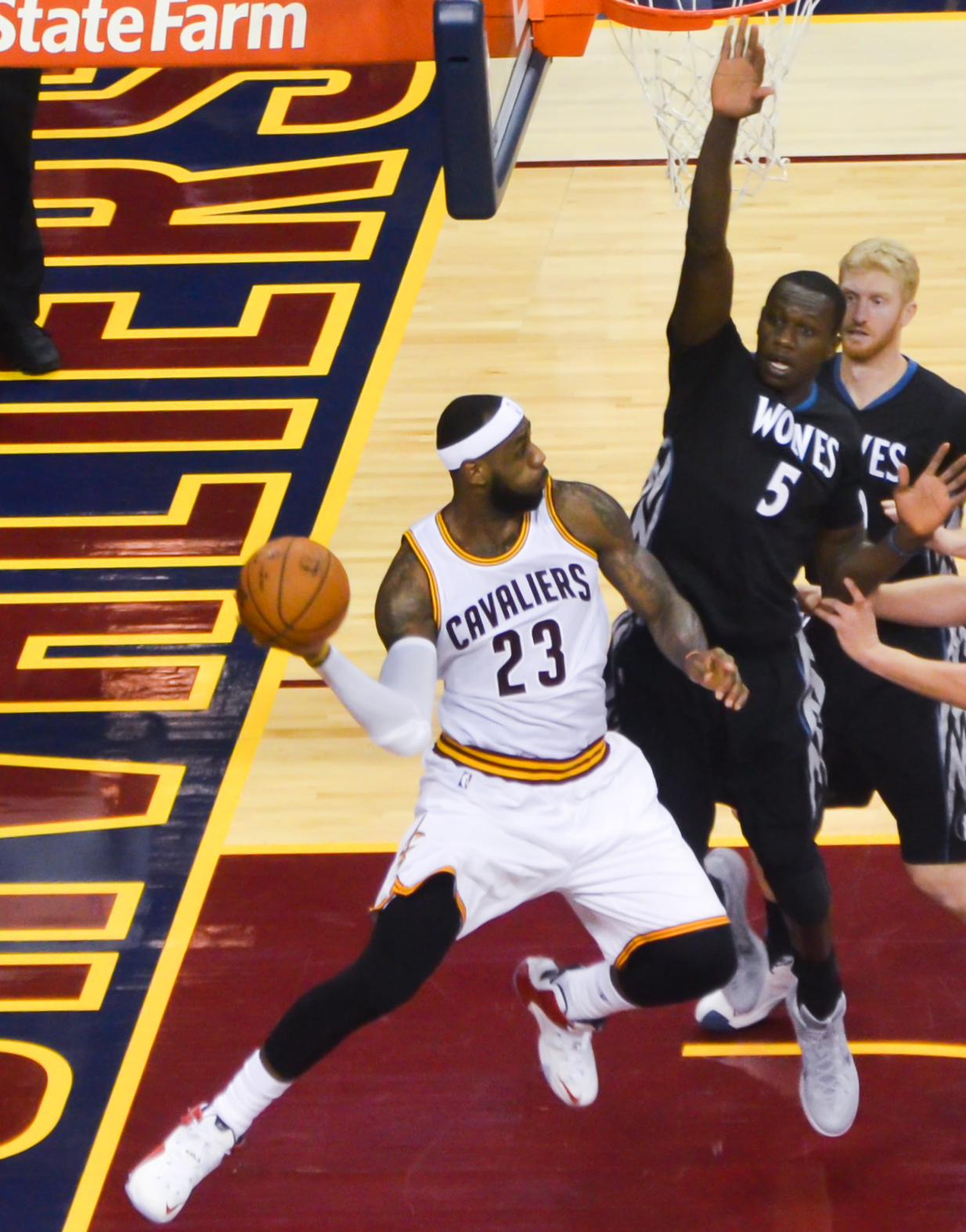 LeBron James (left) and Gorgui Dieng (right, no 5)